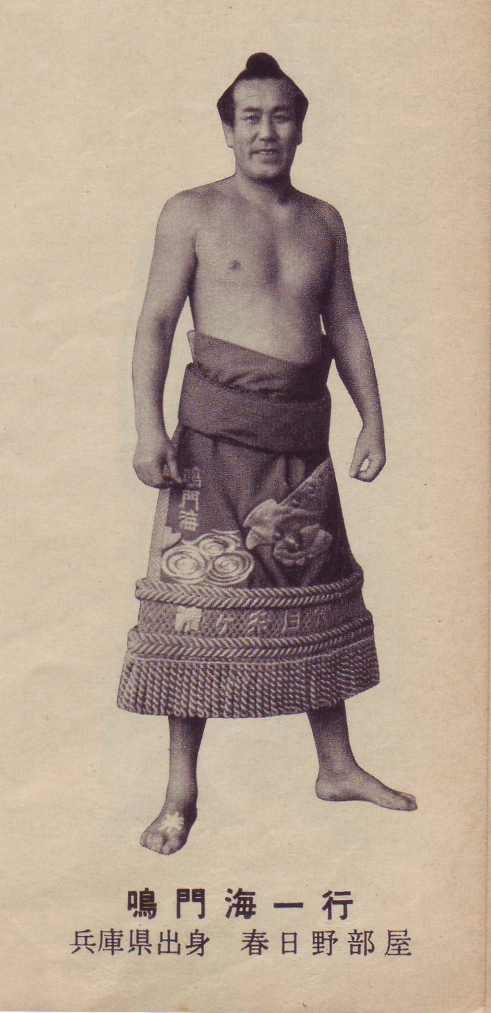 Narutoumi Kazuyuki (Sumo wrestler from Japan). taken in 1958, or before that.